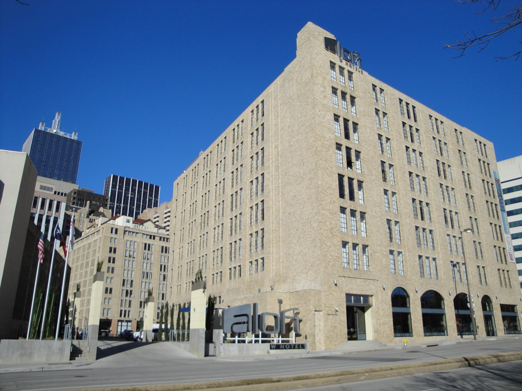 The recently renovated Aloft Hotel in the Santa Fe Building IV in downtown Dallas, Texas